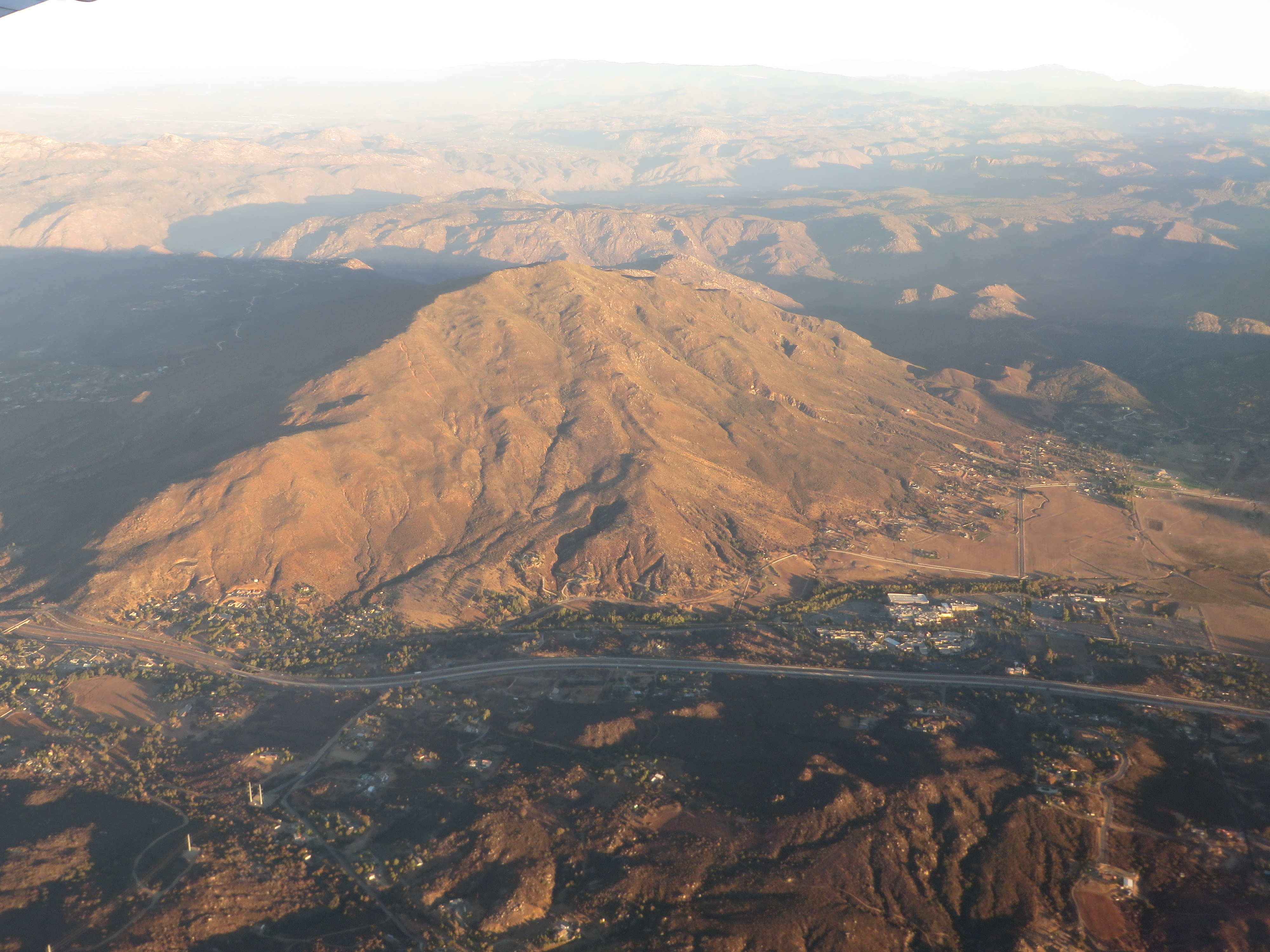 Viejas Mountain is a mountain in San Diego County in the U.S. state of California. The mountain can be seen from parts of metropolitan San Diego. The summit is about 3 miles (5 km) northeast of the community of Alpine in the Cleveland National Forest. With spectacular view of mountains, city and ocean; Viejas Mountain is the 3rd highest peak in San Diego County, and is approx. 1 hour hike (one way).